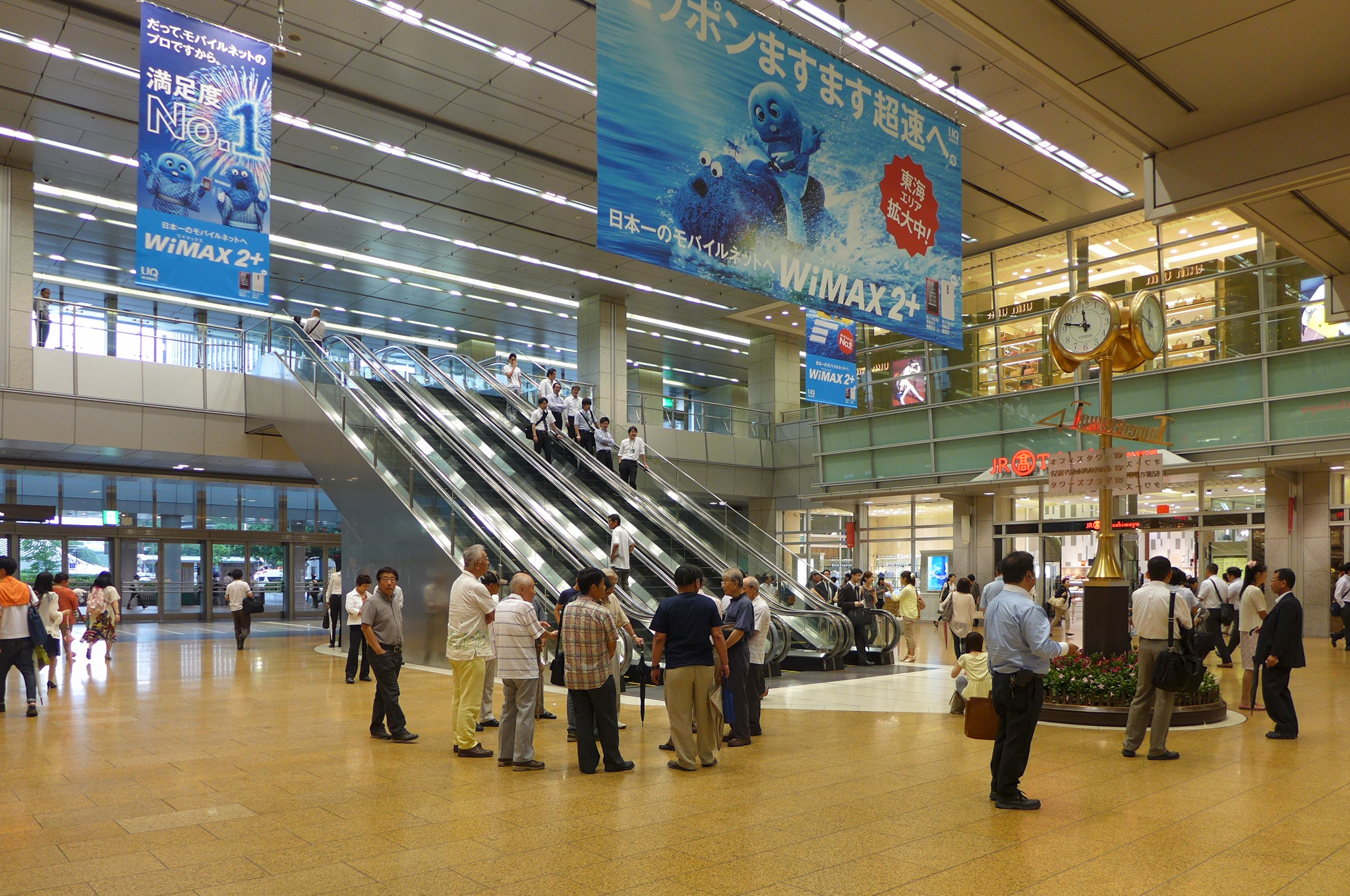 The Sakura Exit concourse at Nagoya Station in Aichi Prefecture, Japan